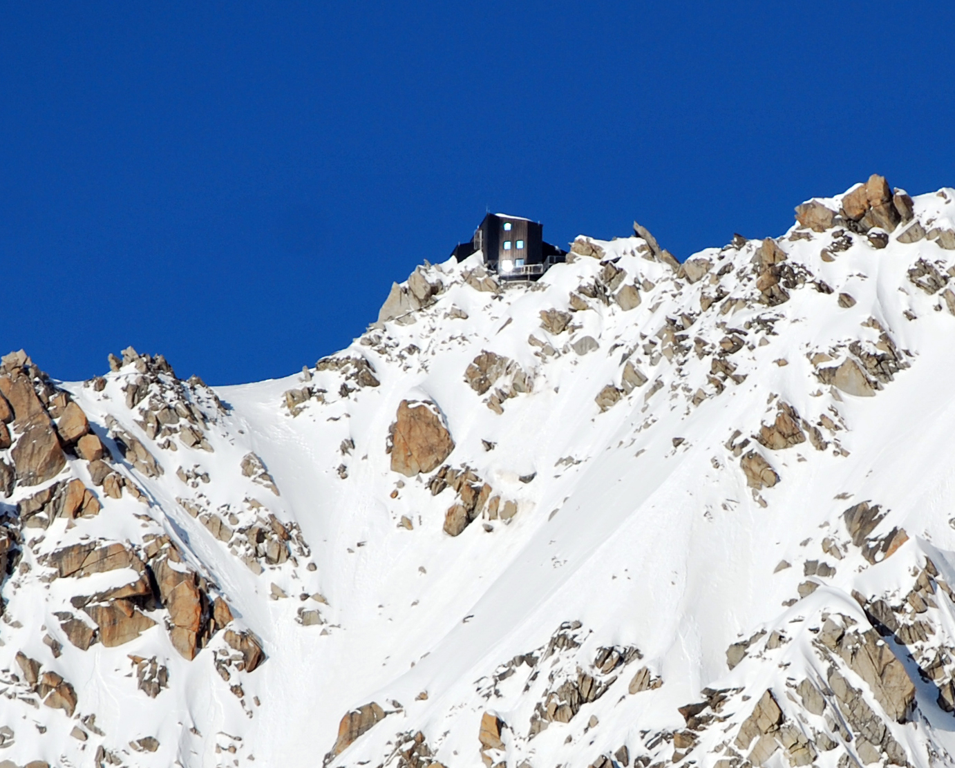 Refuge Cosmiques seen from Refuge des Grands Mulets